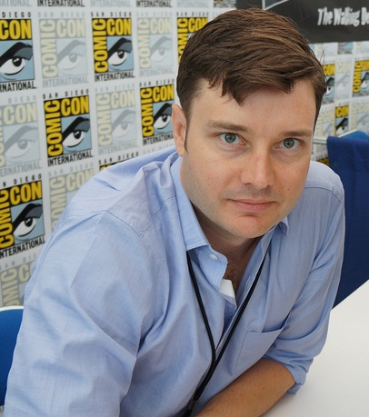 Michael McMillian at the 2013 San Diego Comic Con International